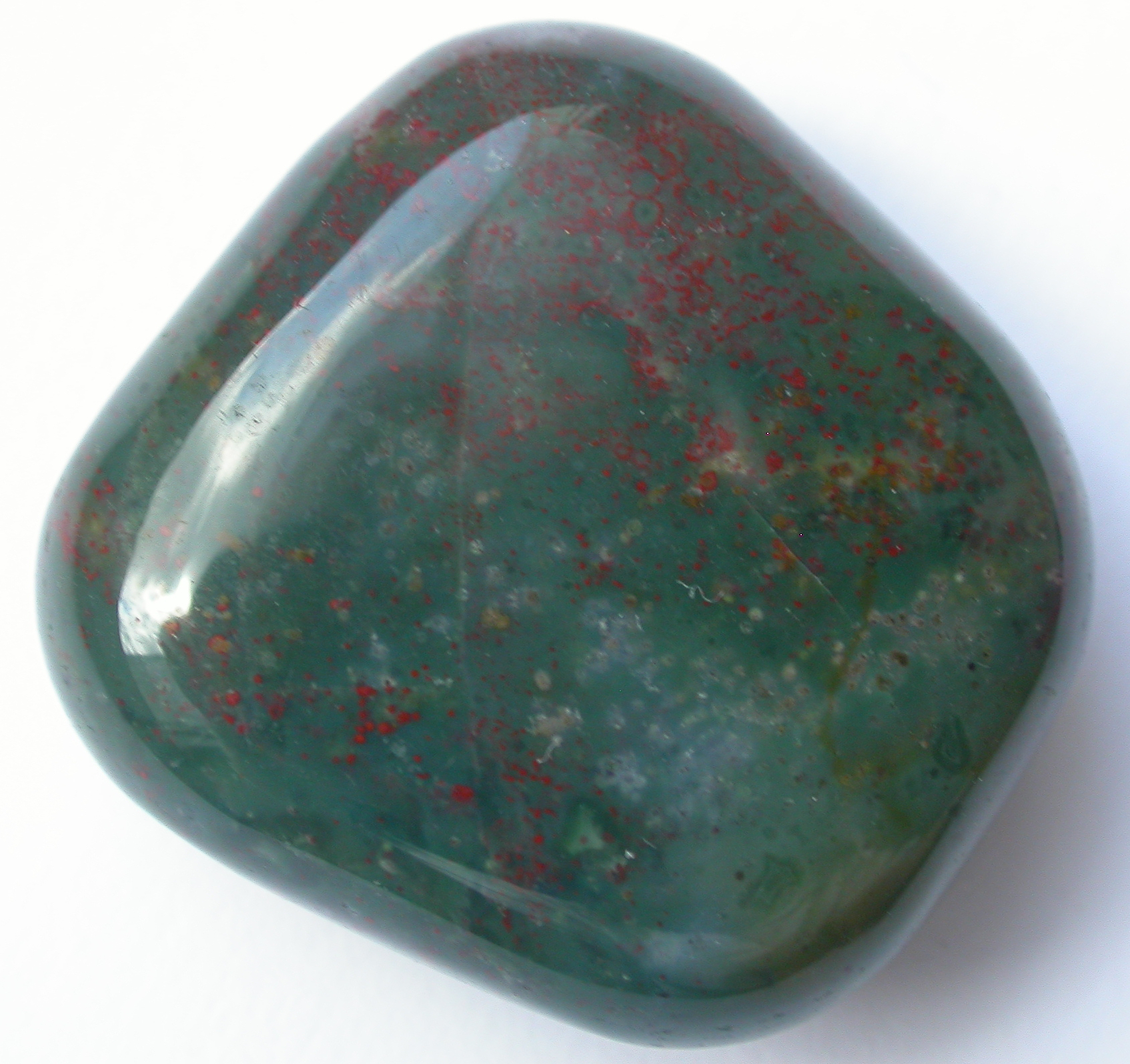 Heliotrop - tumble polished stone